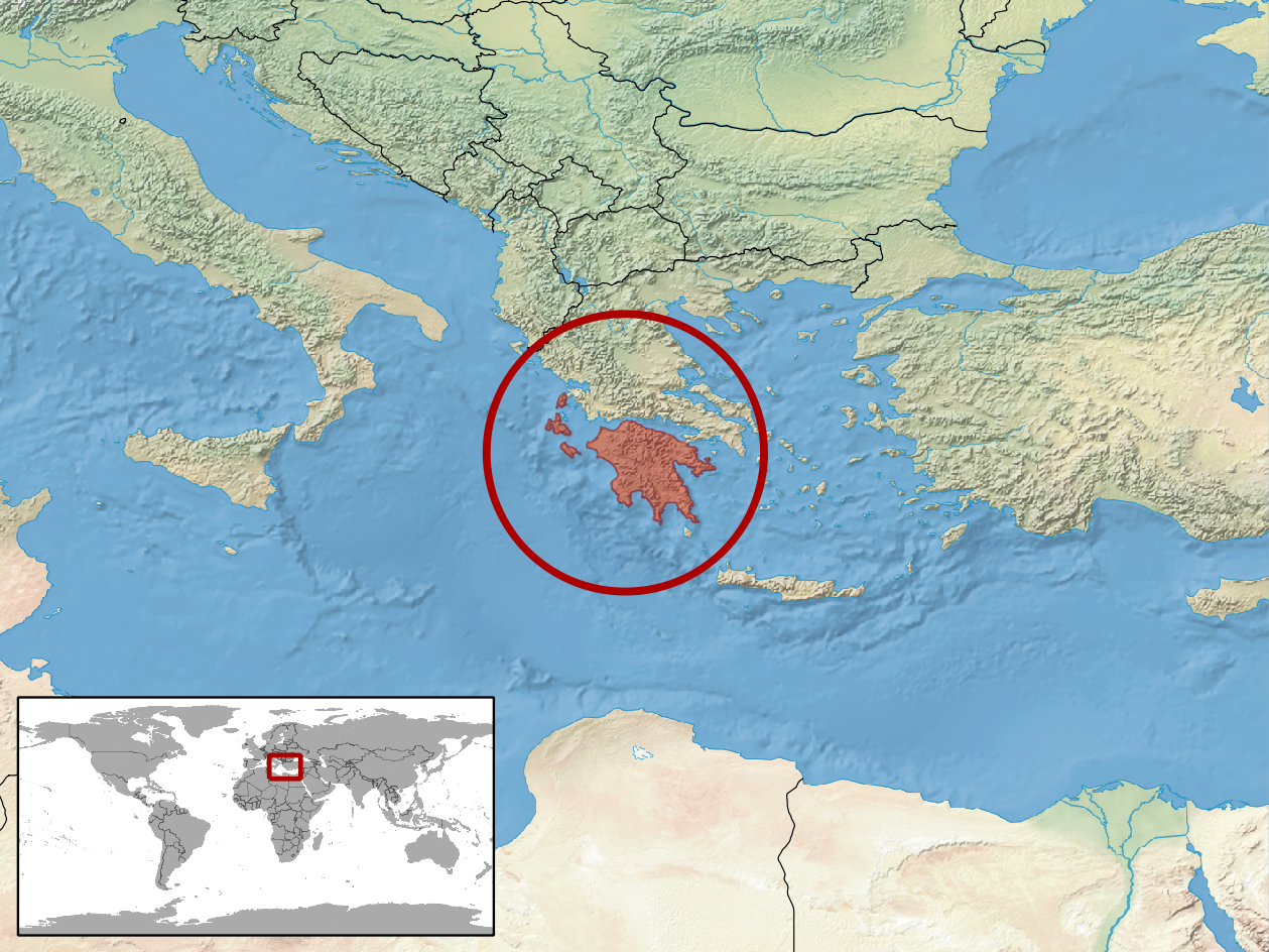 geographic distribution of Anguis cephalonnica syn Anguis cephallonica (Native: Greece)